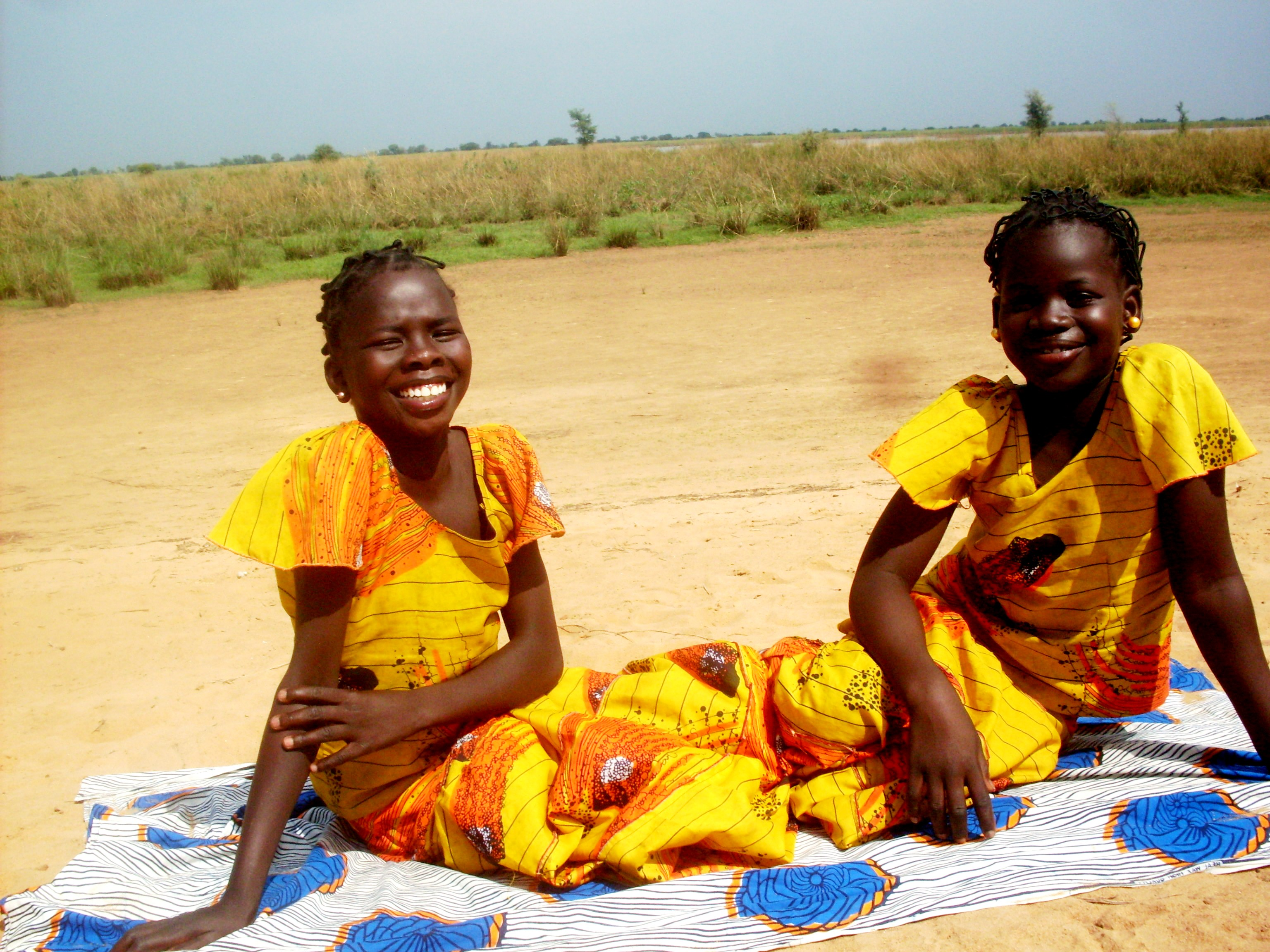 Pretty little girls pausing at the outskirts of river Logone, in Yagoua